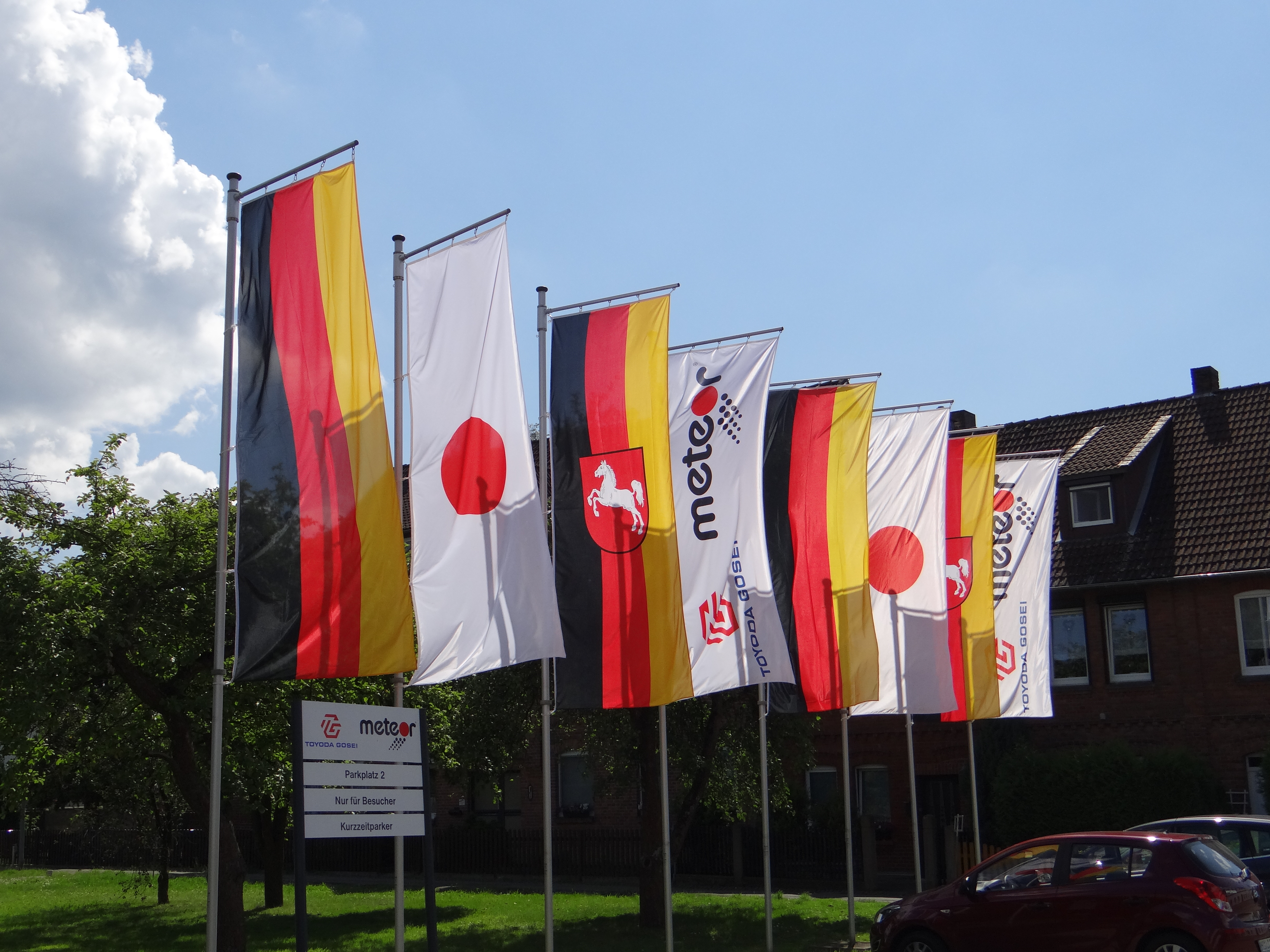 Flags at entrance of Toyoda Gosei Meteor in Bockenem, Germany.